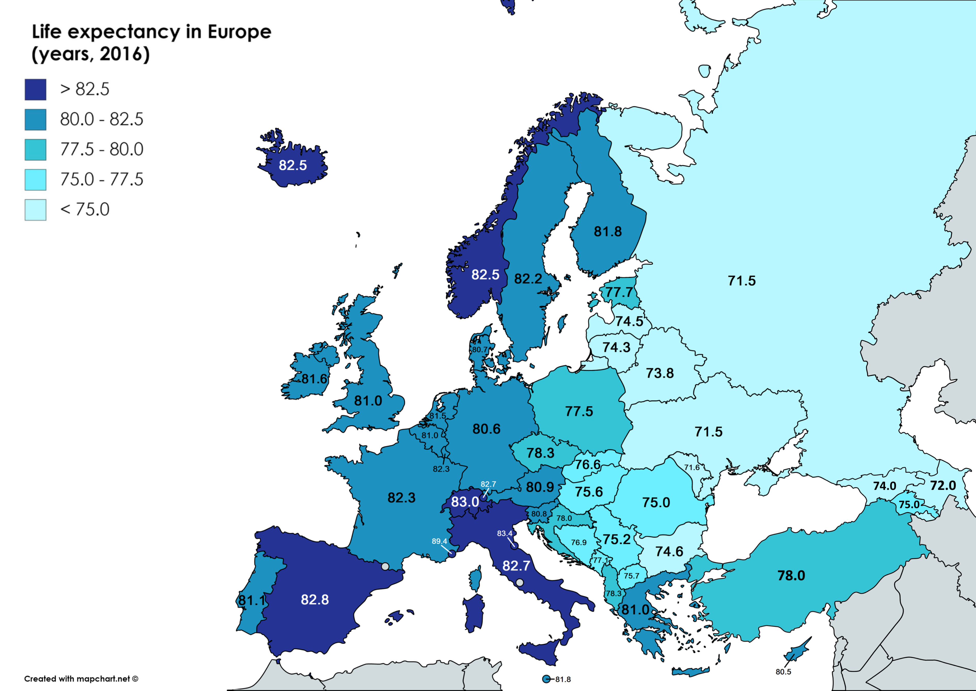 In dark blue the countries with the highest life expectancy, in light blue the ones with the lowest.